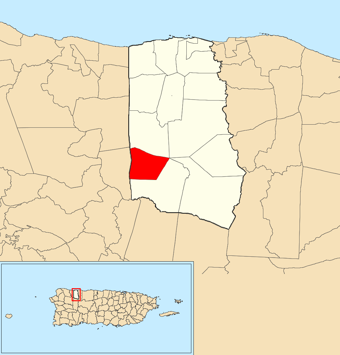 Puertos, Camuy, Puerto Rico locator map